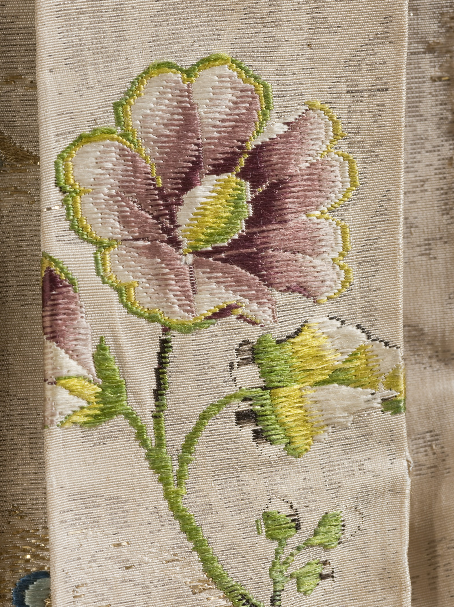 France or England, circa 1760-1765 Costumes; ensembles Silk plain weave (faille) with silk and metallic-thread supplementary weft patterning, and metallic lace trim Petticoat enter back length: 38 1/2 in. (97.79 cm); Robe center back: 158.75 cm. (62 1/2 in) Gift of Mrs. Aldrich Peck (M.56.6a-b) Costume and Textiles